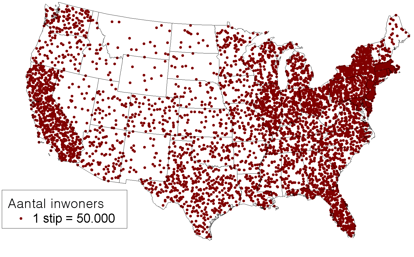 A map of the United States (in Dutch) illustrating the population per state. The legend reads "Population: 1 dot = 50,000".